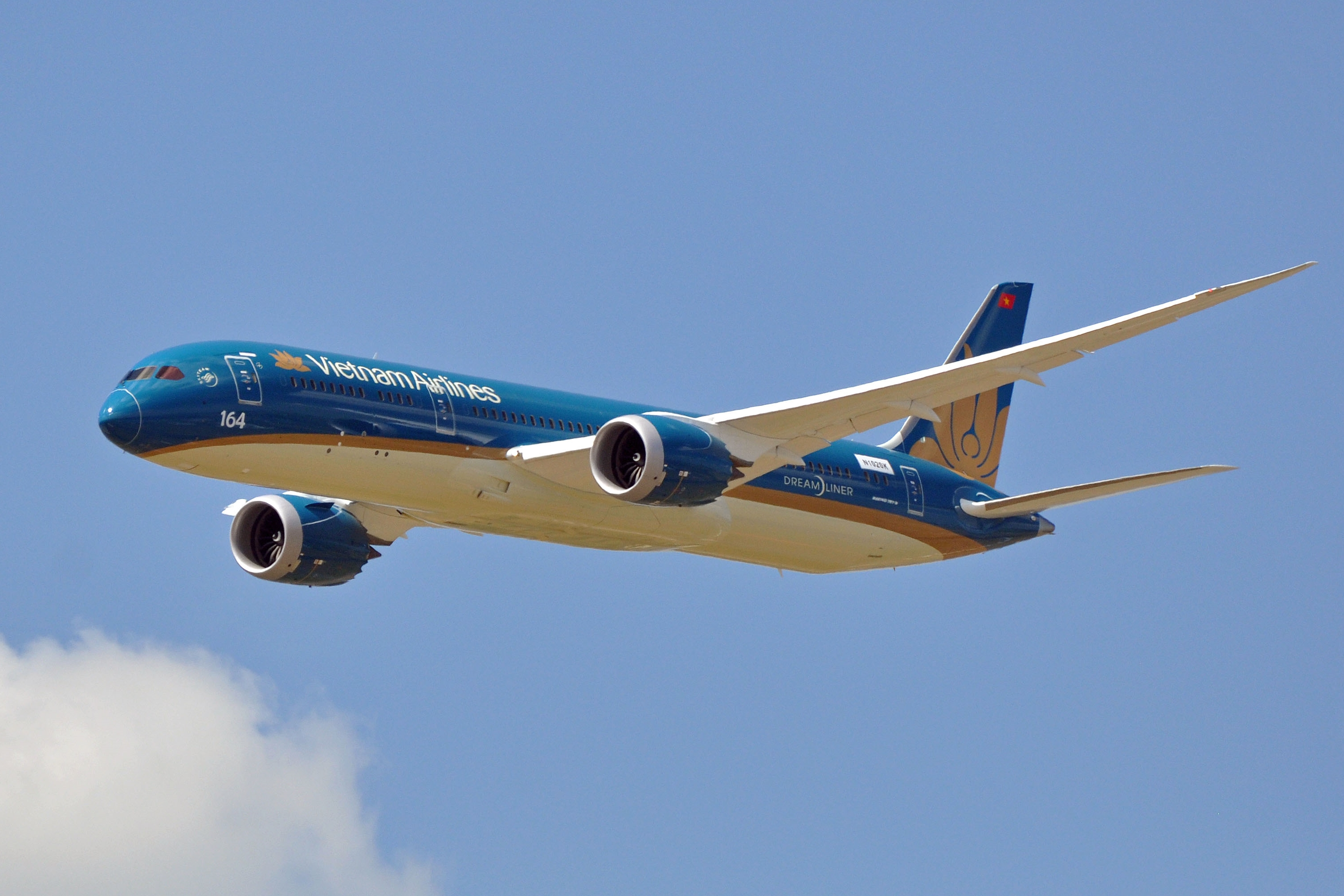 Vietnam Airlines Boeing 787-9 Dreamliner at Paris Air Show 2015